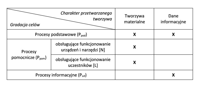 Table 3. Classification of ETP-processes depending on gradation of goals in the system and by the nature of the processed material.